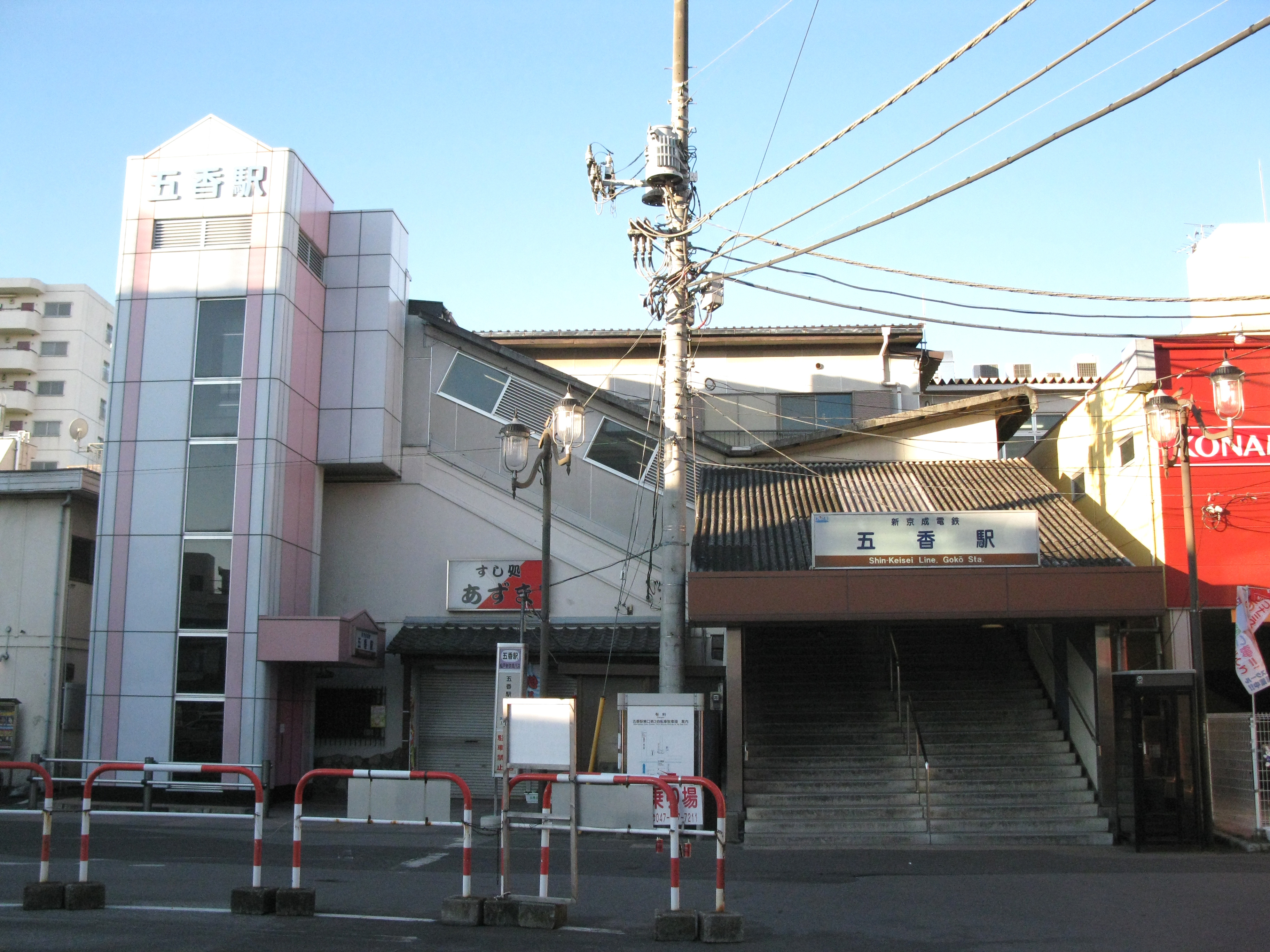 Gokō Station east entrance (Shin-Keisei Electric Railway Shin-Keisei Line)